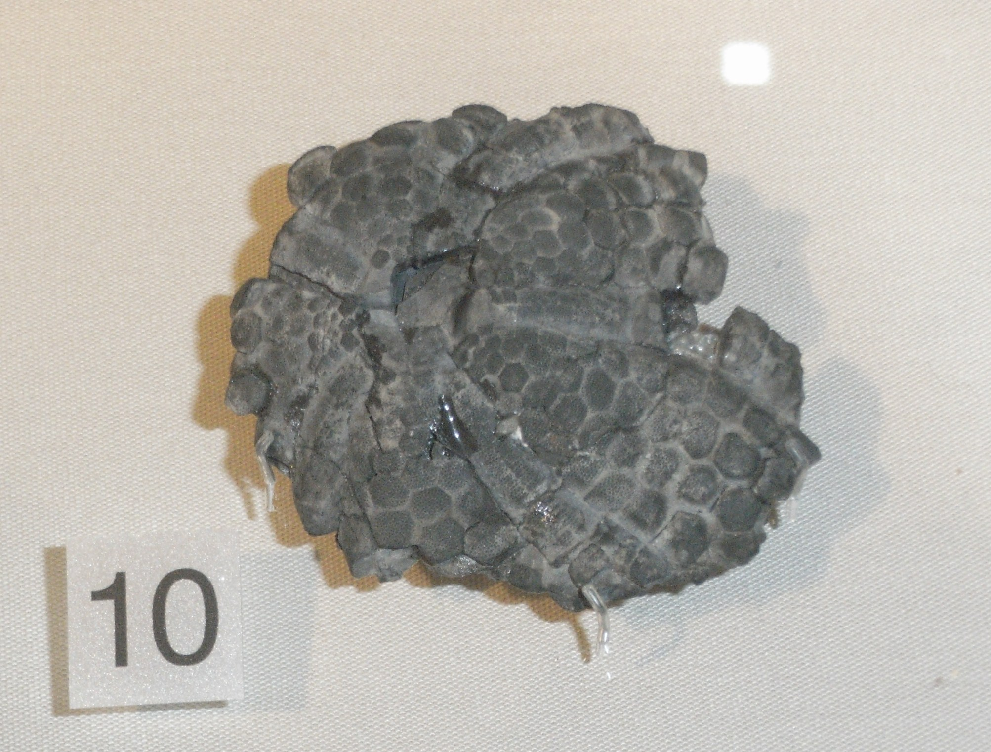 Echinoid Palalaechinus McCoy, 1844 McCoy, F. 1844. A synopsis of the characters of the Carboniferous Limestone fossils of Ireland. Dublin, 207 pp., 29 pls. Mississippian (Lower Carboniferous) Co. Sligo, Ireland Stem group Echinoidea; Palaechinidae.